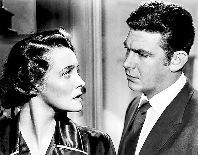 Promo photo of Patricia Neal and Andy Griffith in the 1957 film A Face in the Crowd.